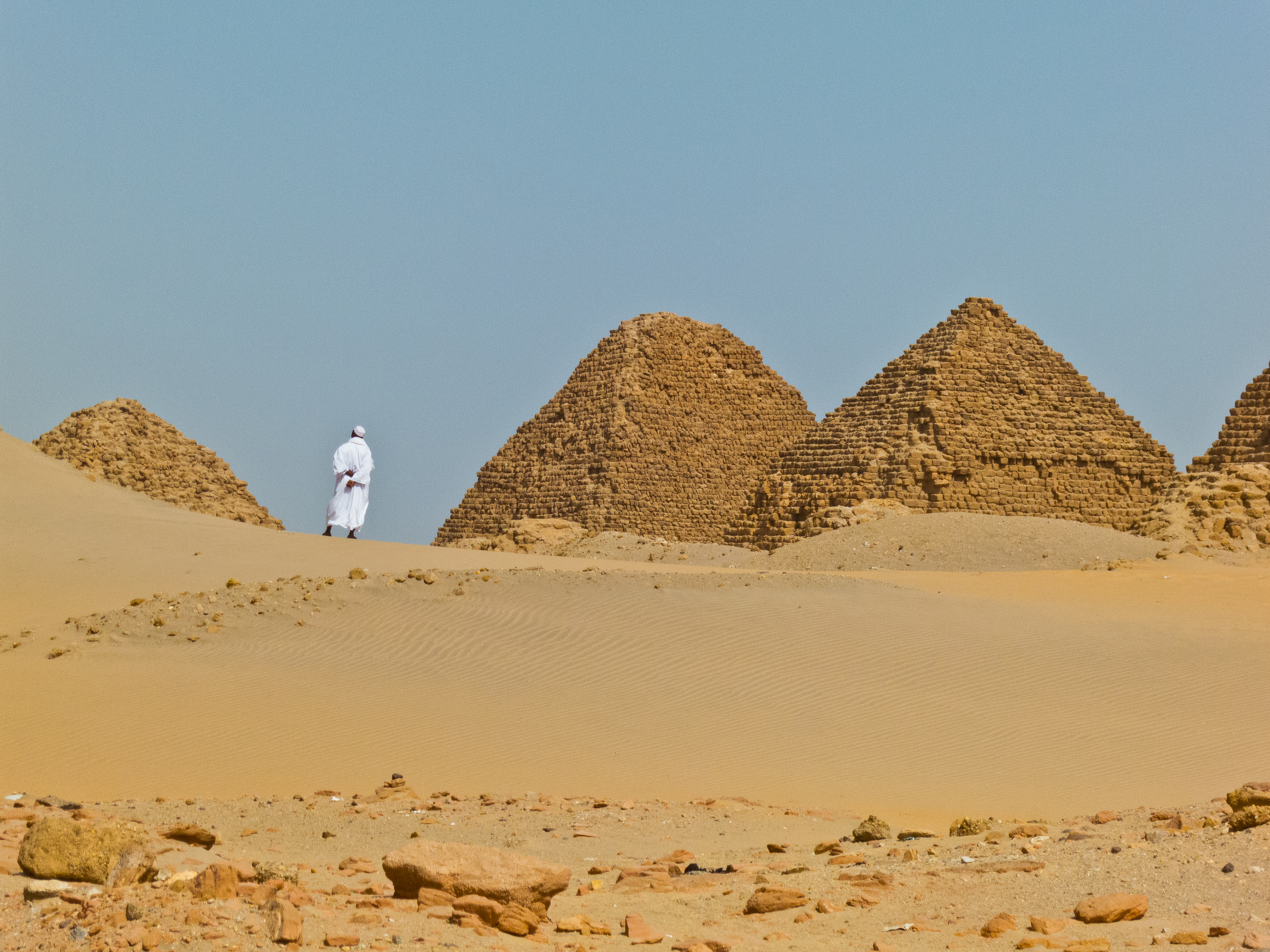 A man walks among the pyramids at the royal cemetery in Nuri, near the present-day city of Karima, Sudan.